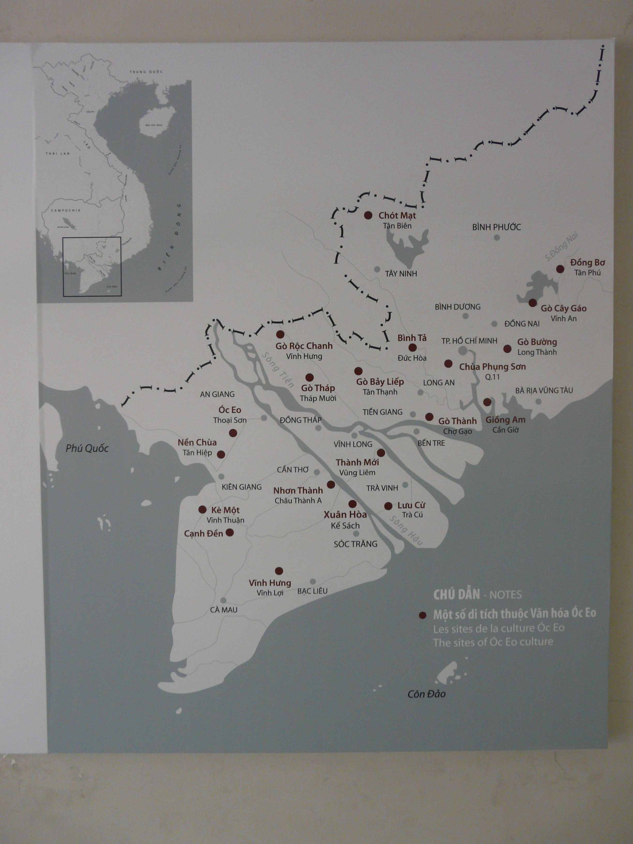 This map hangs in the Museum of Vietnamese History, Ho Chi Minh City. It shows the archeological sites associated with Oc Eo culture, and perhaps with the Kingdom of Funan.